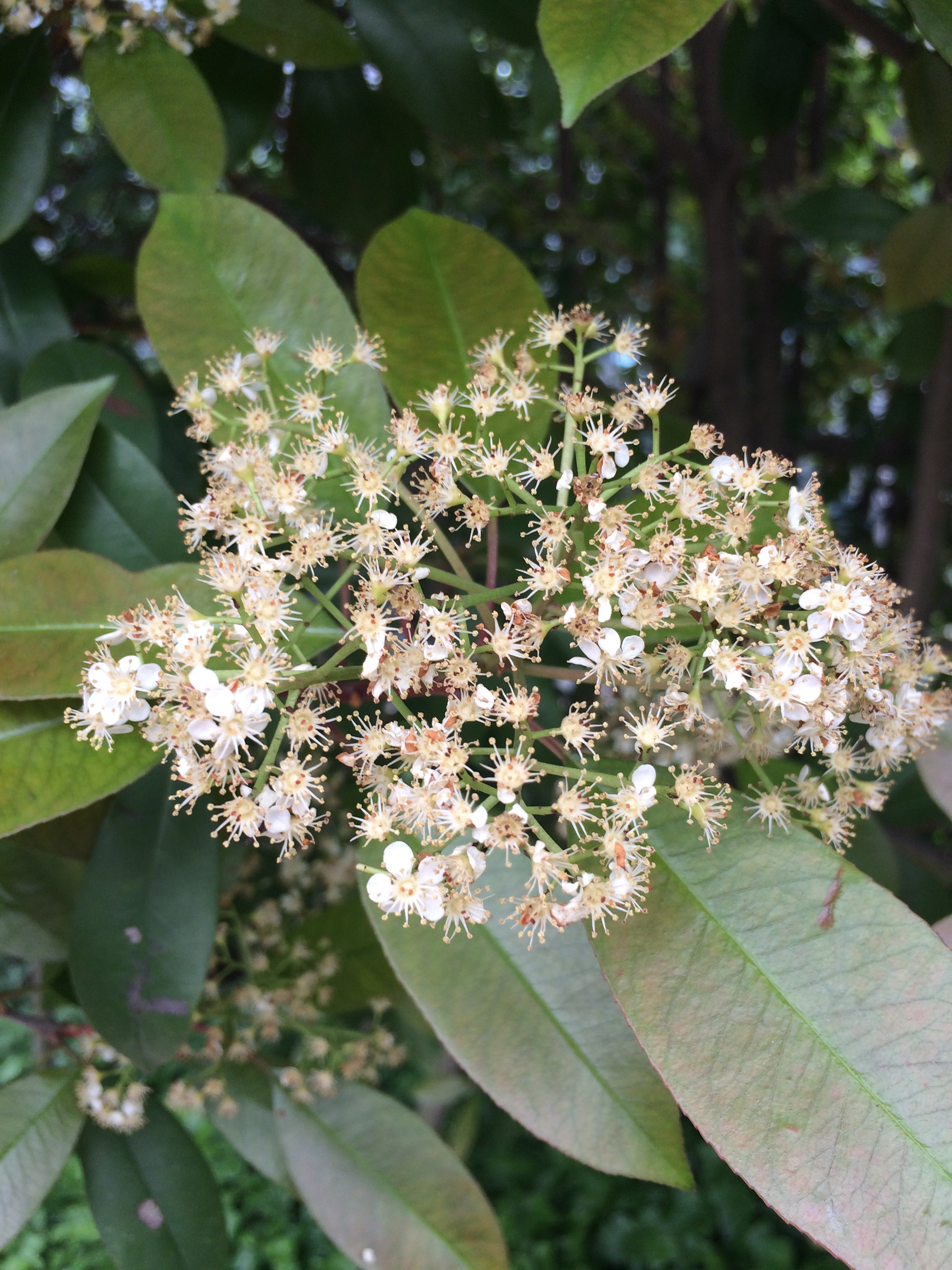 Photinia serratifolia 中文（中国大陆）: 石 楠 花